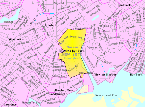 U.S. Census 2000 reference map for Hewlett Bay Park